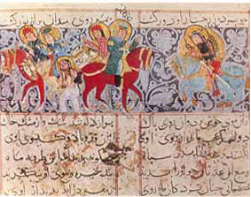 Varga and Gulgash miniature from Azerbaijan.